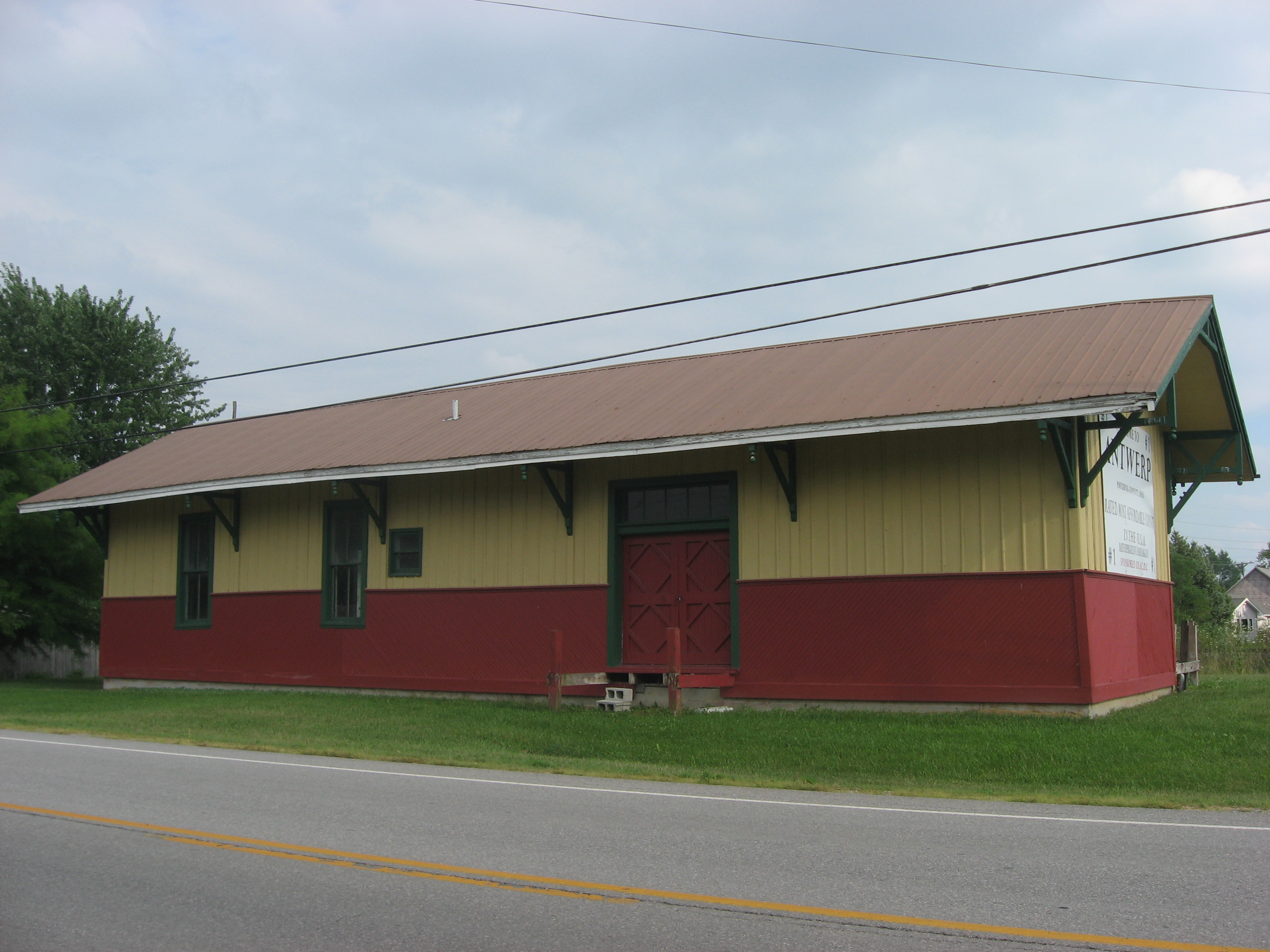 Front of the Antwerp Norfolk and Western Depot, located along W. River Street in Antwerp, Ohio, United States. Built in 1880, it is listed on the National Register of Historic Places.